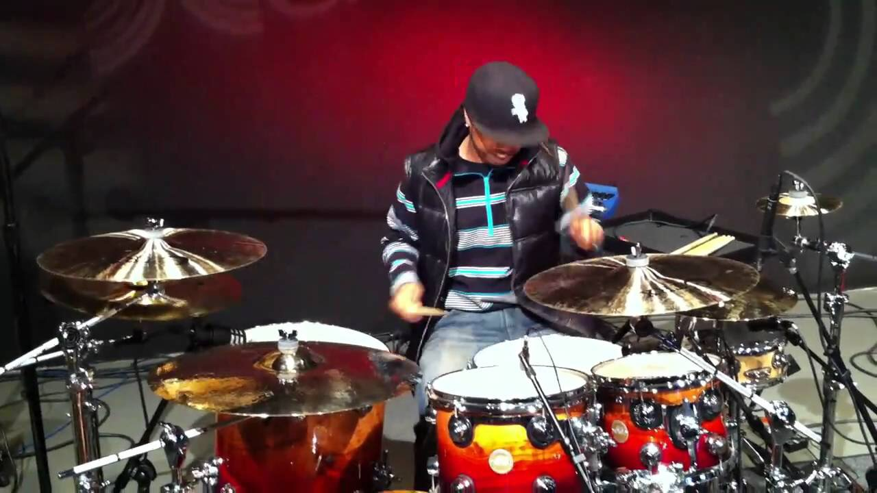 Tony Royster, Jr.